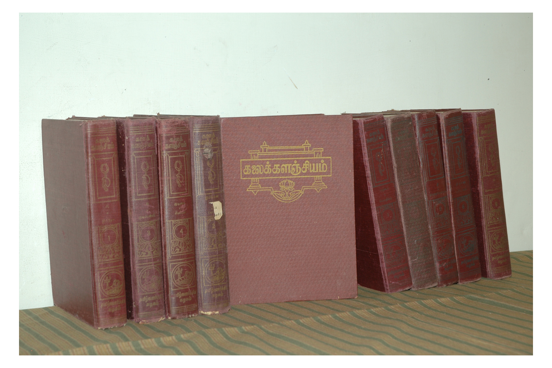 Tamil Encyclopedia 10 Volume set. Chief editor : Periasamy Thooran